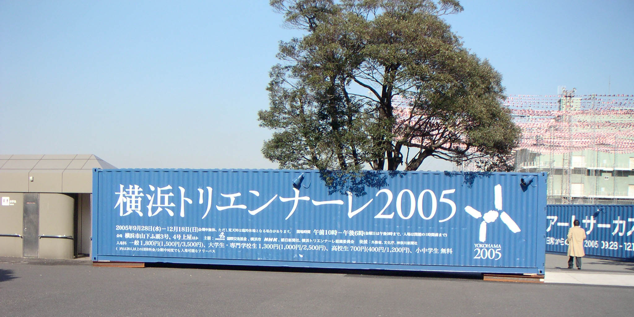 Entrance to YOKOHAMA International Triennale of Contemporary Art 2005